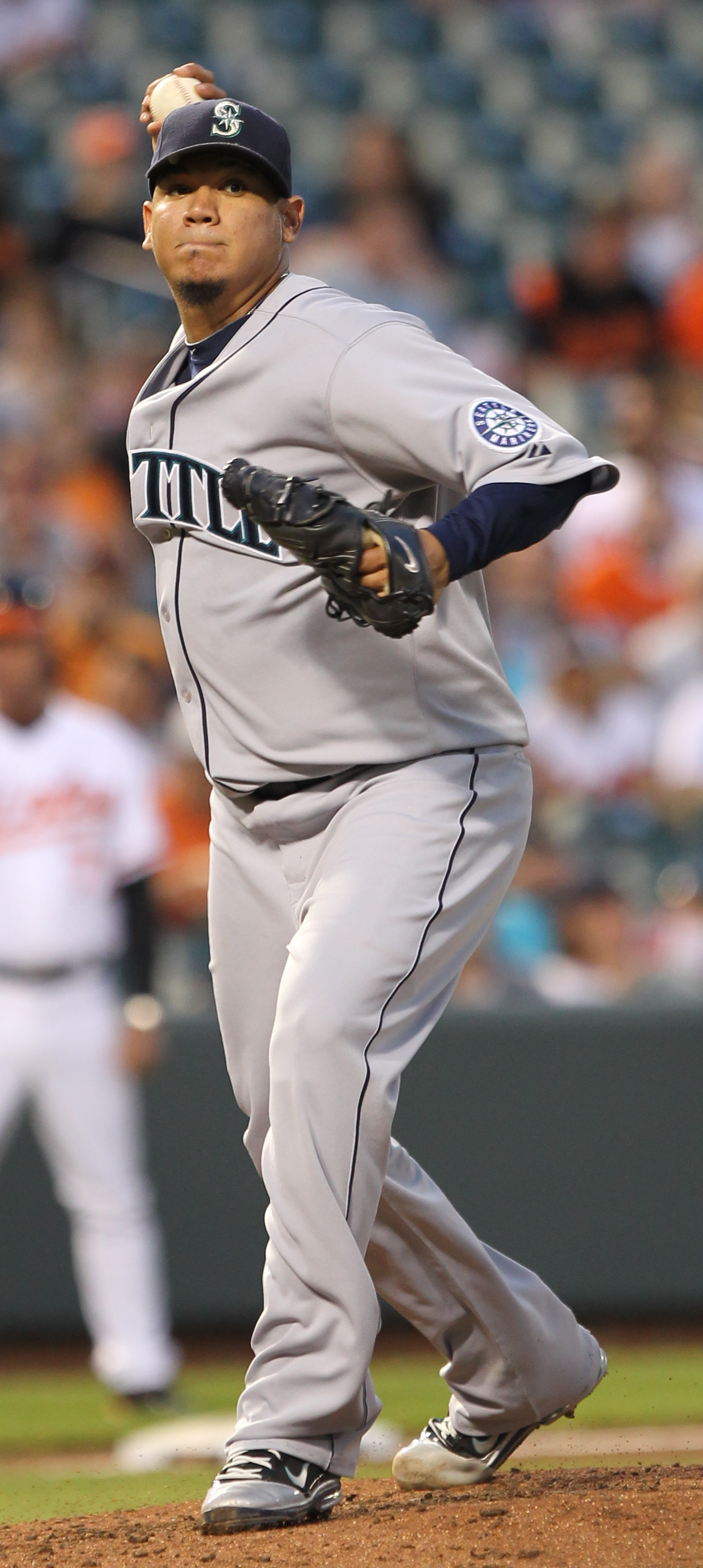 Seattle Mariners starting pitcher Felix Hernandez (34) in action during the Seattle Mariners at Baltimore Orioles game on May 11, 2011.